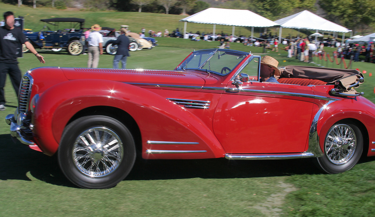 1947 Delahaye 175 at Newport Beach, CA, Concours d'Elegance, Strawberry Farms, Oct 9, 2007